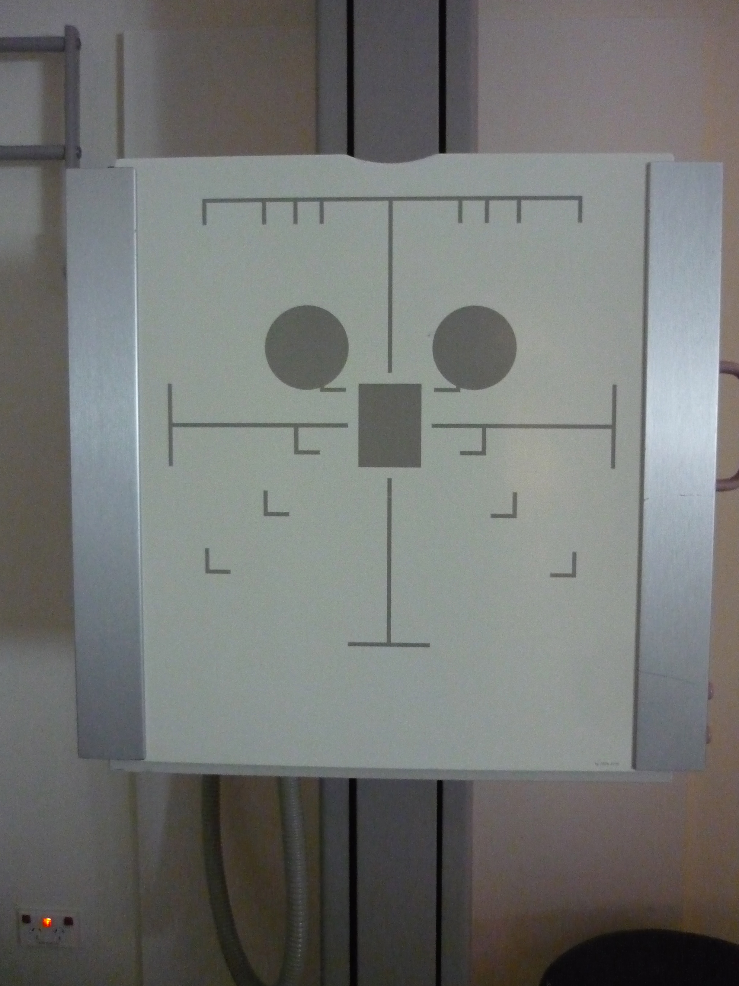 Positions of ionization chambers on AEC detectors on a chest stand.